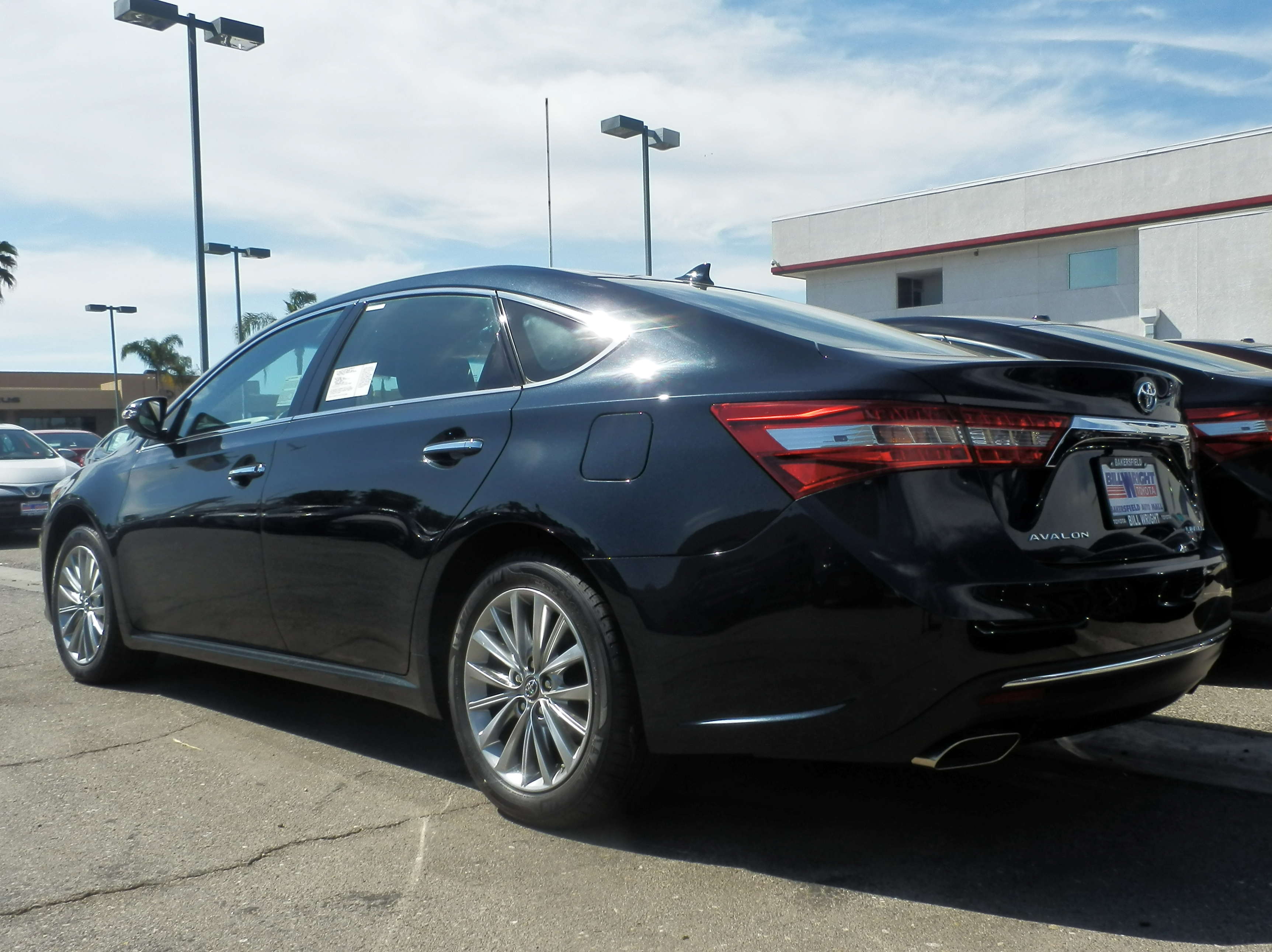 Toyota Avalon in Bakersfield